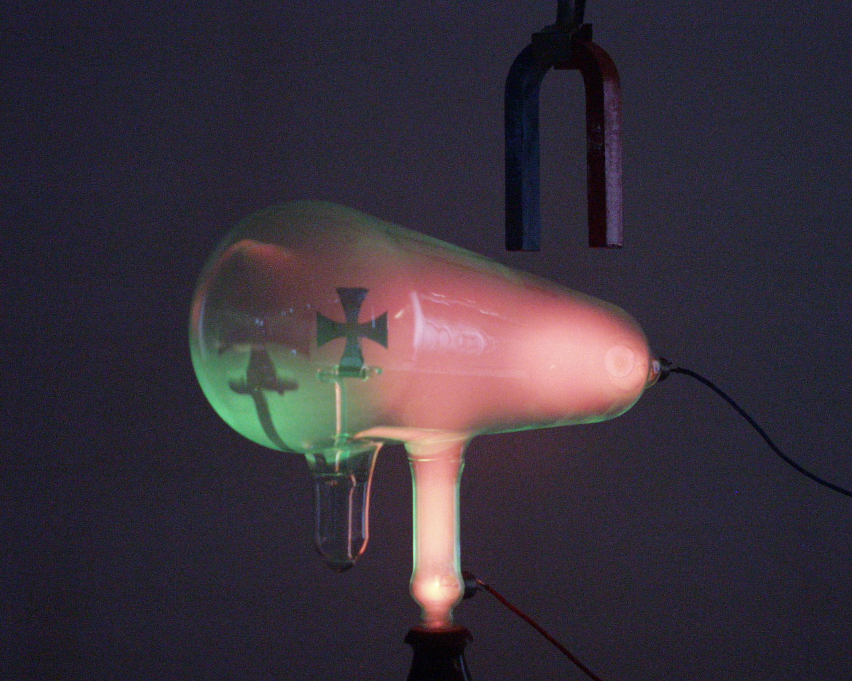 Cathode rays in magnetic field. (Crookes tube; B ≠ 0) A Crookes tube demonstrating deflection of cathode rays by a magnetic field. The electrode at the rear of the tube is the cathode, while the anode is in the glass neck at the base of the tube. A high voltage of several kilovolts is applied between the electrodes, creating positive ions in the residual gas in the tube which strike the cathode, releasing electrons. The electrons, attracted by the anode travel to the front of the tube and hit the glass wall, causing it to fluoresce (glow) with green light. The metal cross in the tube blocks the electrons, casting a shadow on the glowing wall. The poles of the magnet create a magnetic field horizontally through the neck of the tube. The electron beam passes through this field and is bent downward, so it only hits the bottom of the front wall.